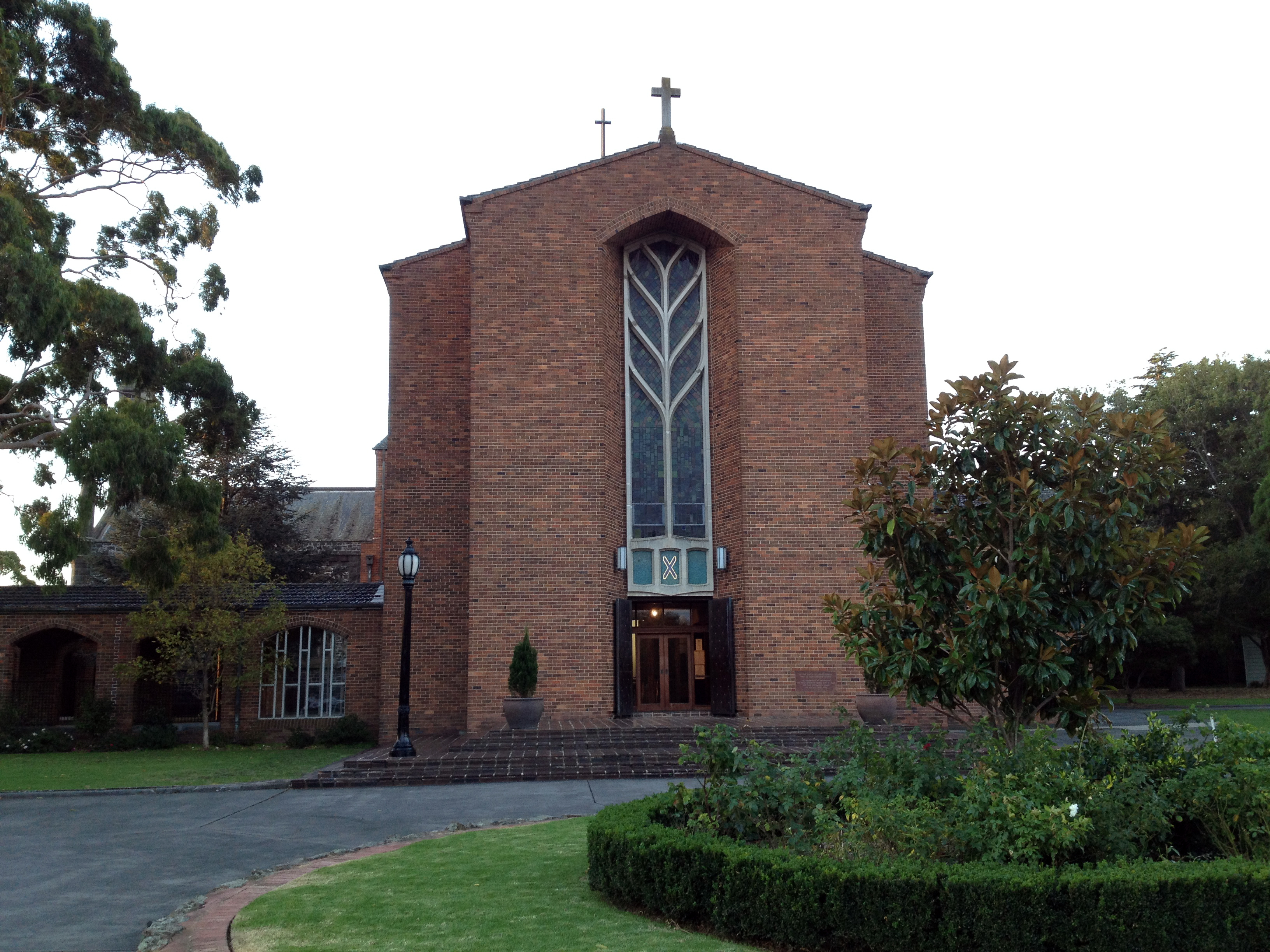 St Andrew's Brighton West Front showing window